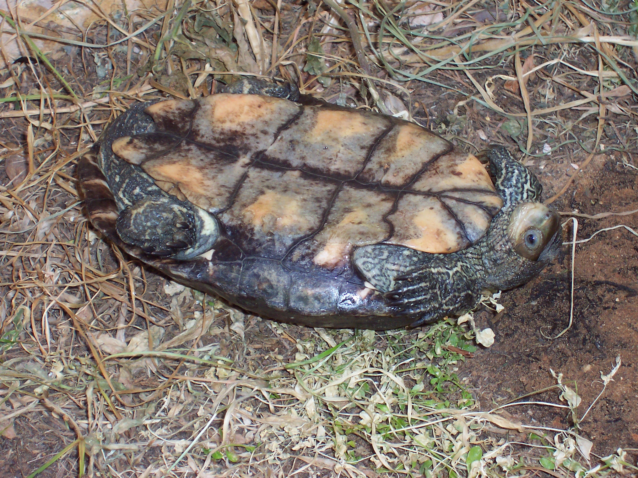 Western Caspian pond turtle